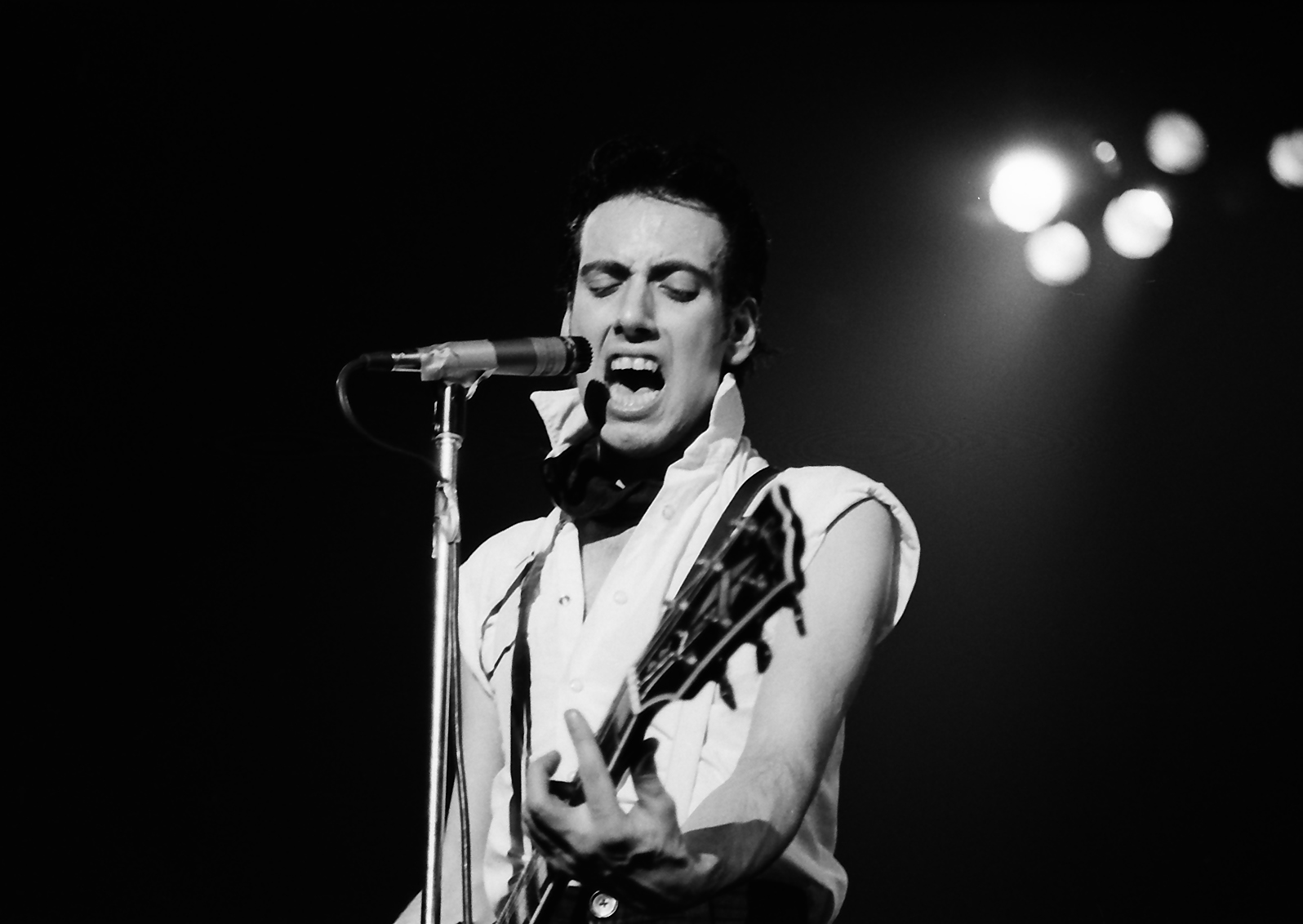 Mick Jones performing with The Clash at the Tower Theater Show March 6, 1980.